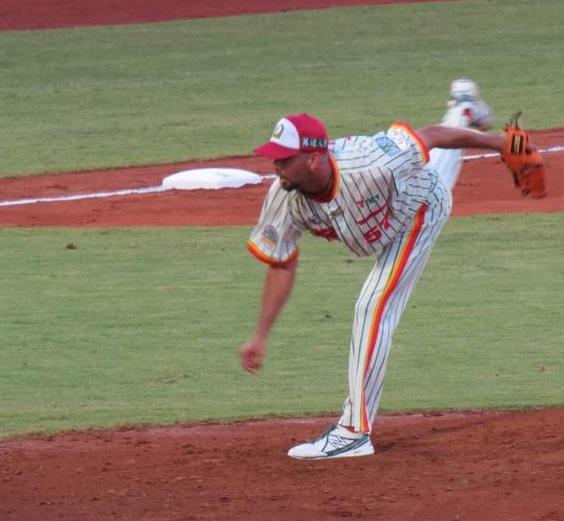 Nelson Figueroa at a baseball game of Tainan of Taiwan in Septemper 29, 2013.